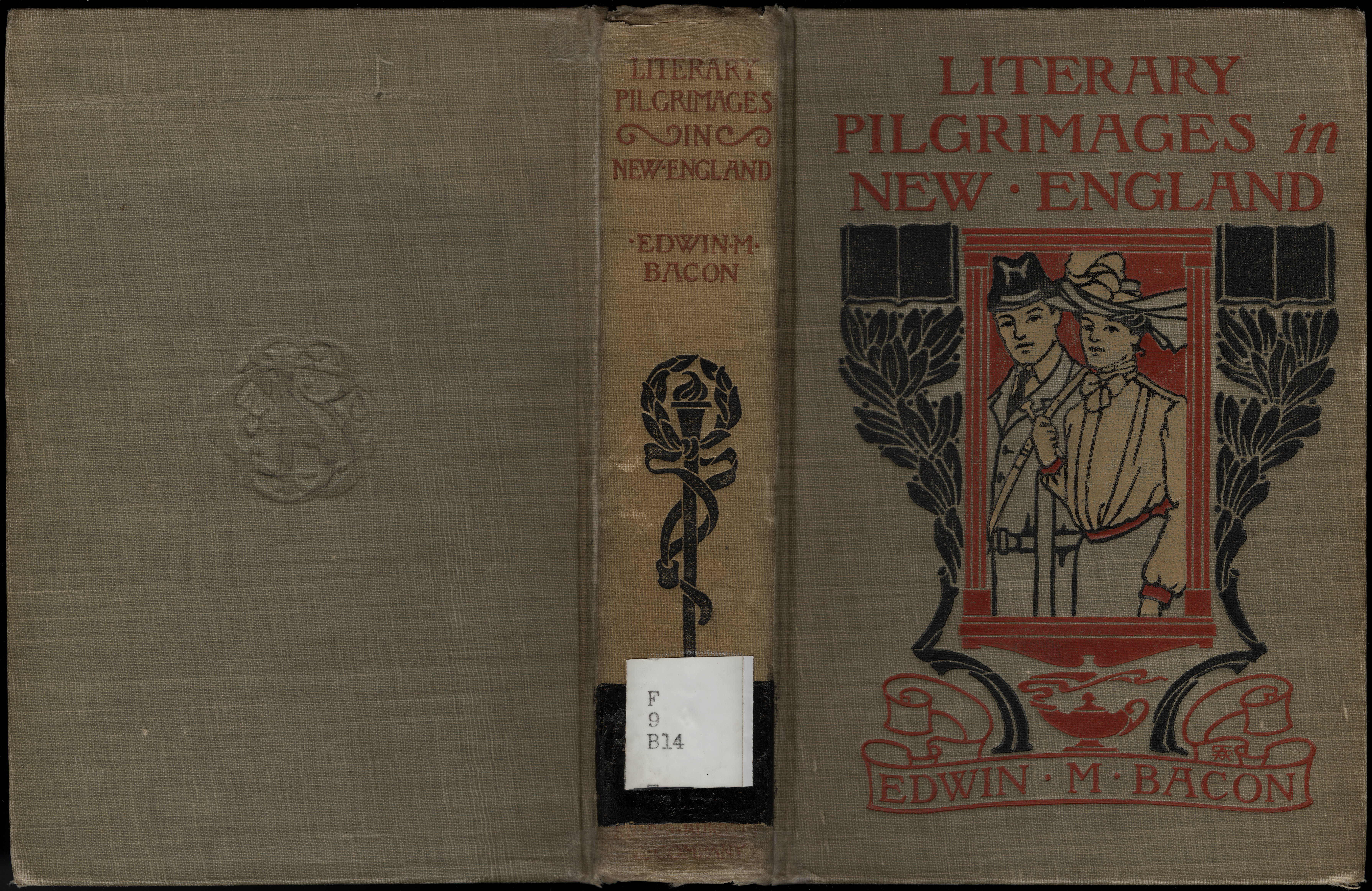 Binding of "Literary pilgrimages in New England : to the homes of famous makers of American literature and among their haunts and the scenes of their writings"; Binding designer: Sacker, Amy M. (Amy Maria), 1872-1965 Author: Bacon, Edwin M. (Edwin Monroe), 1844-1916. description and image from the University of North Carolina Greensboro Library, Special Collections and Archives